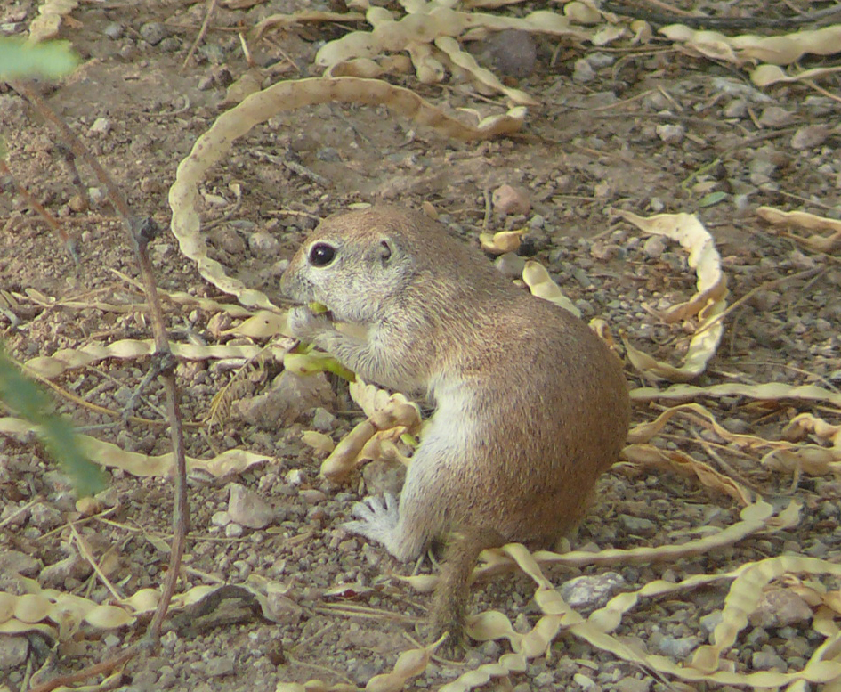 A Round-tailed Ground Squirrel (Spermophilus tereticaudus) munches the seed pods of a Velvet Mesquite (Prosopis veluntina). Photo taken in Tucson, AZ